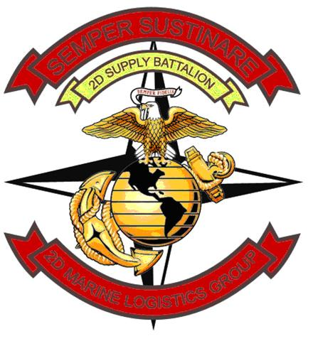 Logo for 2nd Supply Battalion